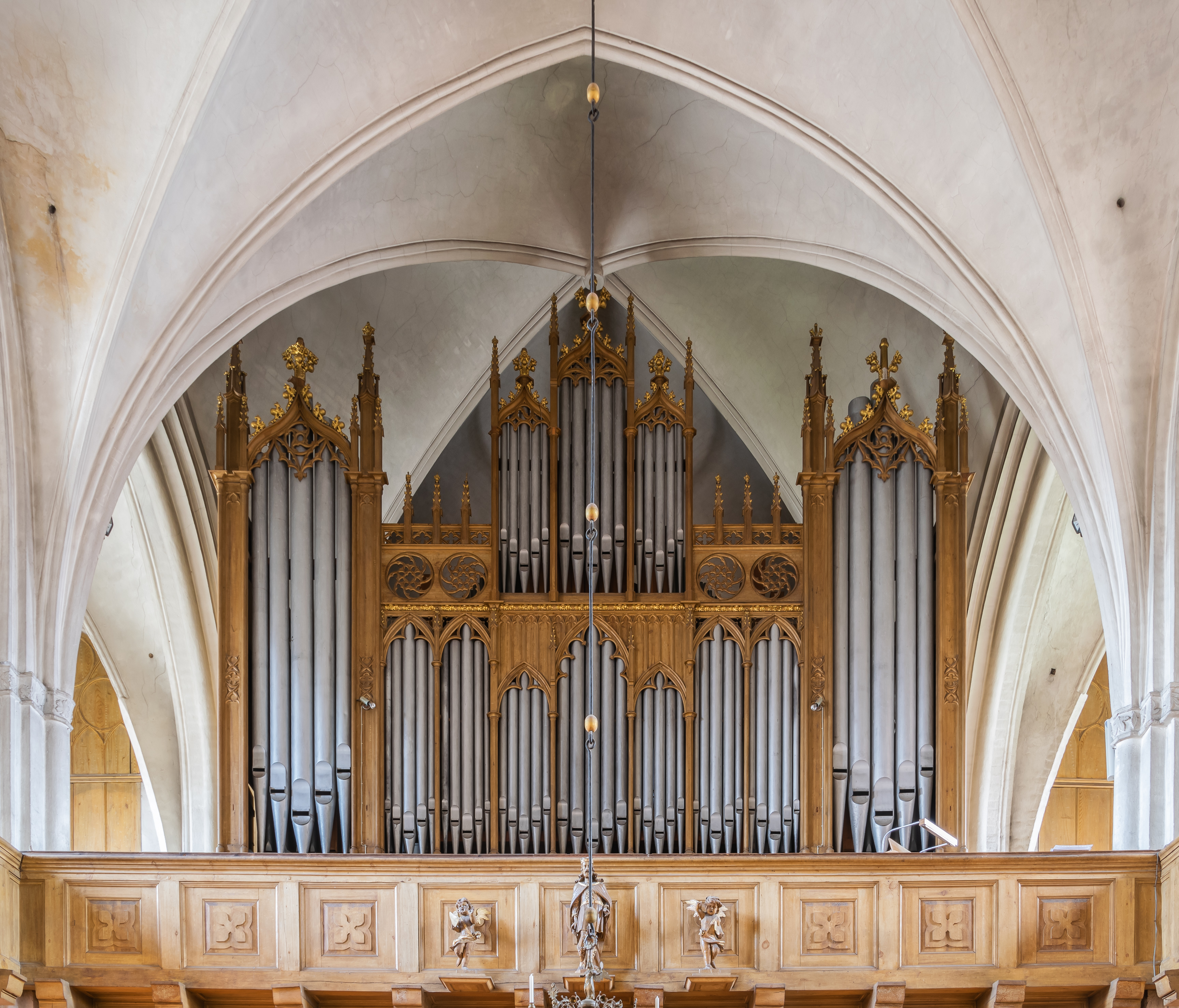 Organ in the Saints Mary and Martin church in Wittstock/Dosse, Brandenburg, Germany